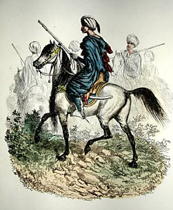 Gendarmes maures